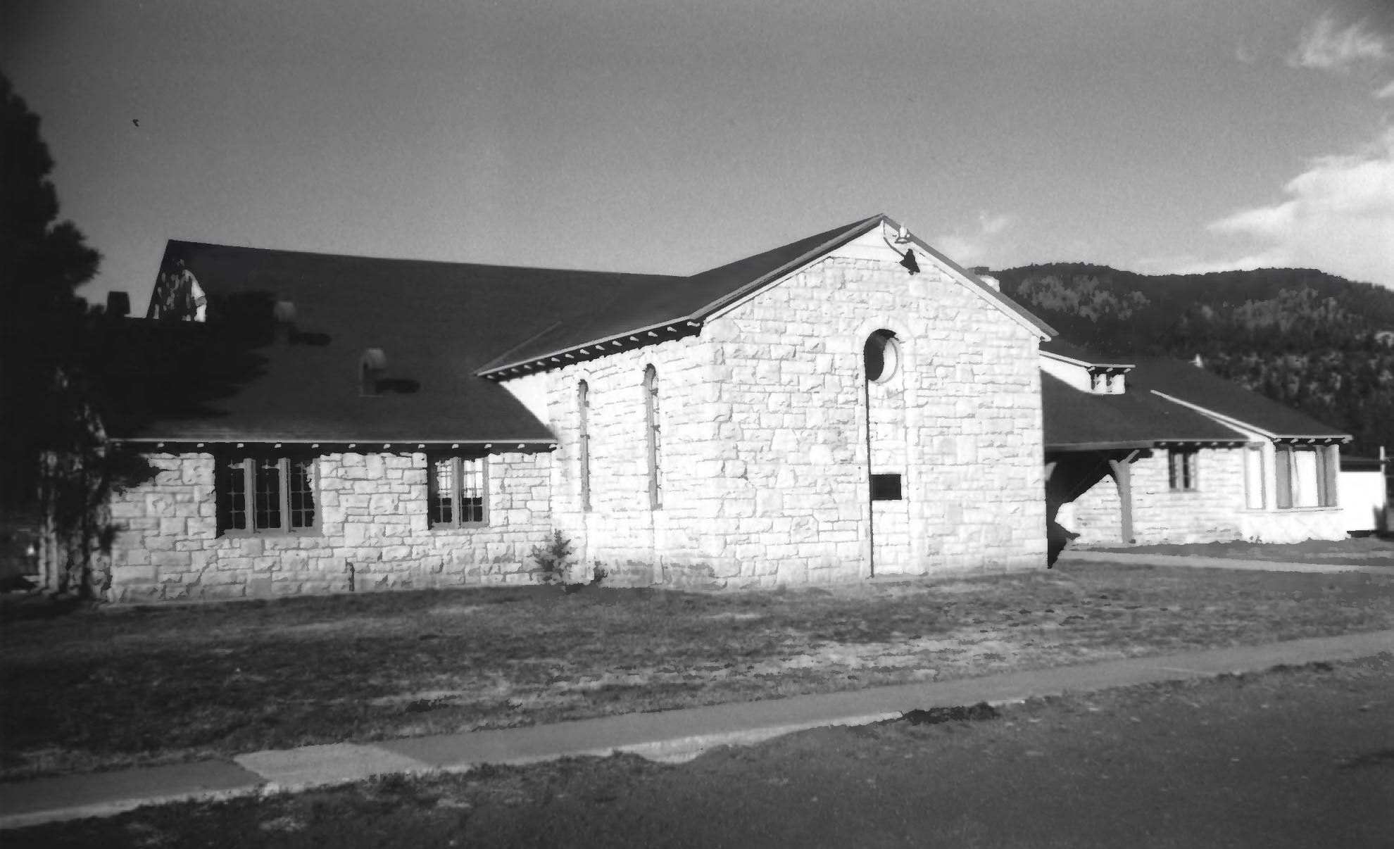 Old LDS chapel at Alpine Elementary School